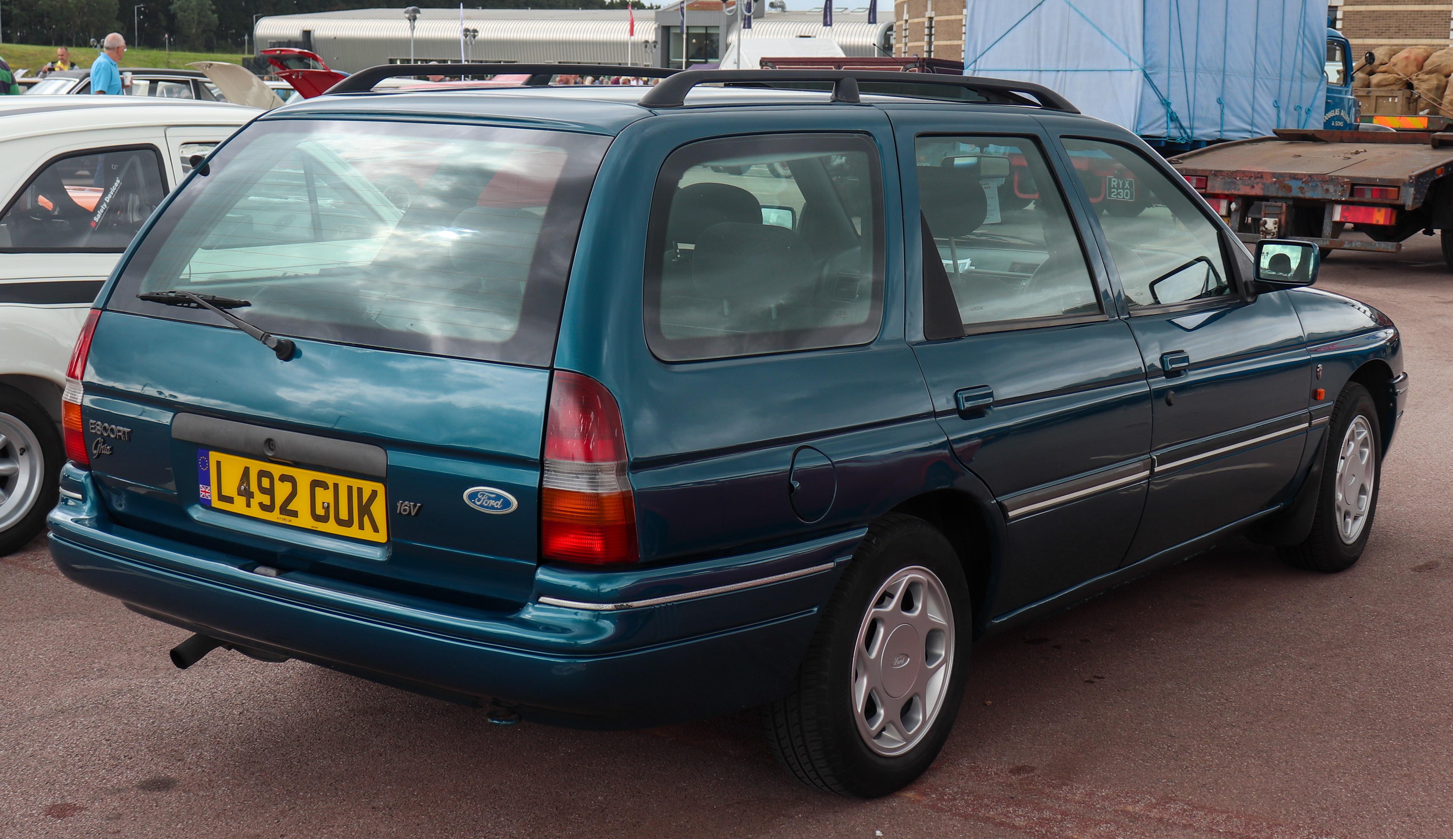 1994 Ford Escort Ghia Estate 1.8 Rear Taken at the British Motor Museum Old Ford Rally 2019, Gaydon